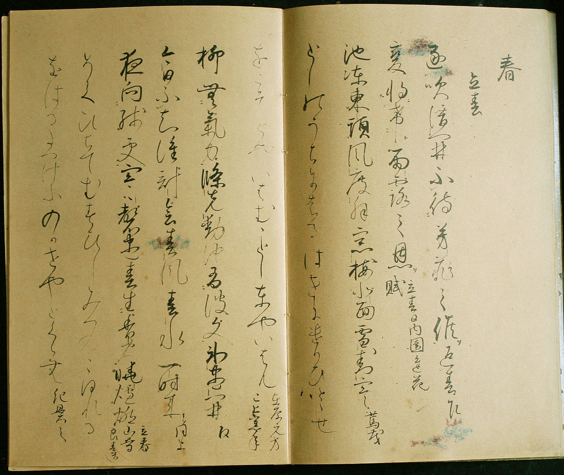 IYO GIRE : Wakan rōeishū 2nd folio of uncomplete volume of Manuscript book, ink on ornamented paper. 25.6cm height. 11th century